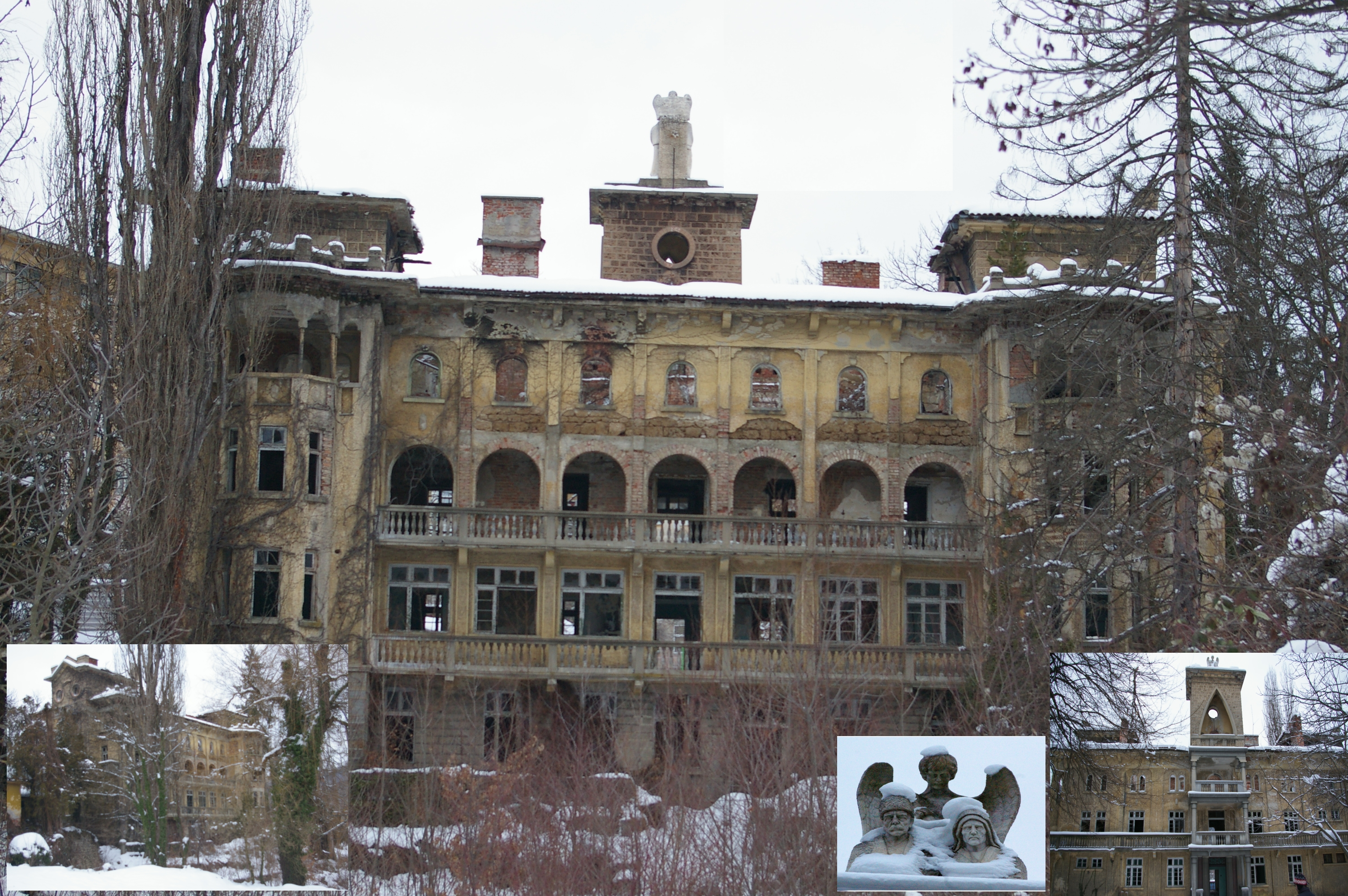 Pencho Semov villa, retirement home, ruined